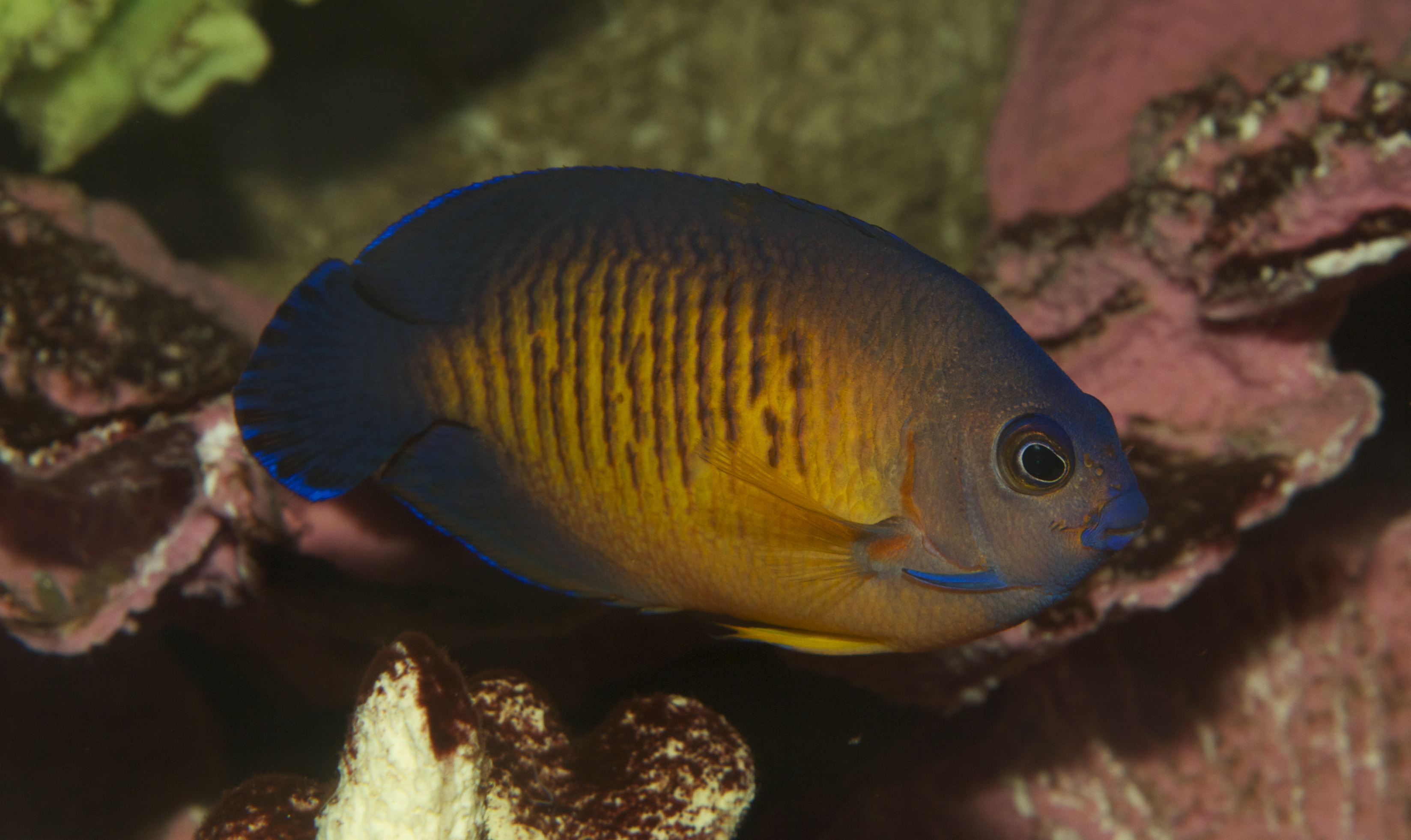 Centropyge multispinis, National Aquarium, Washington, DC, USA